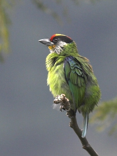 Golden-throated Barbet (Megalaima franklinii)